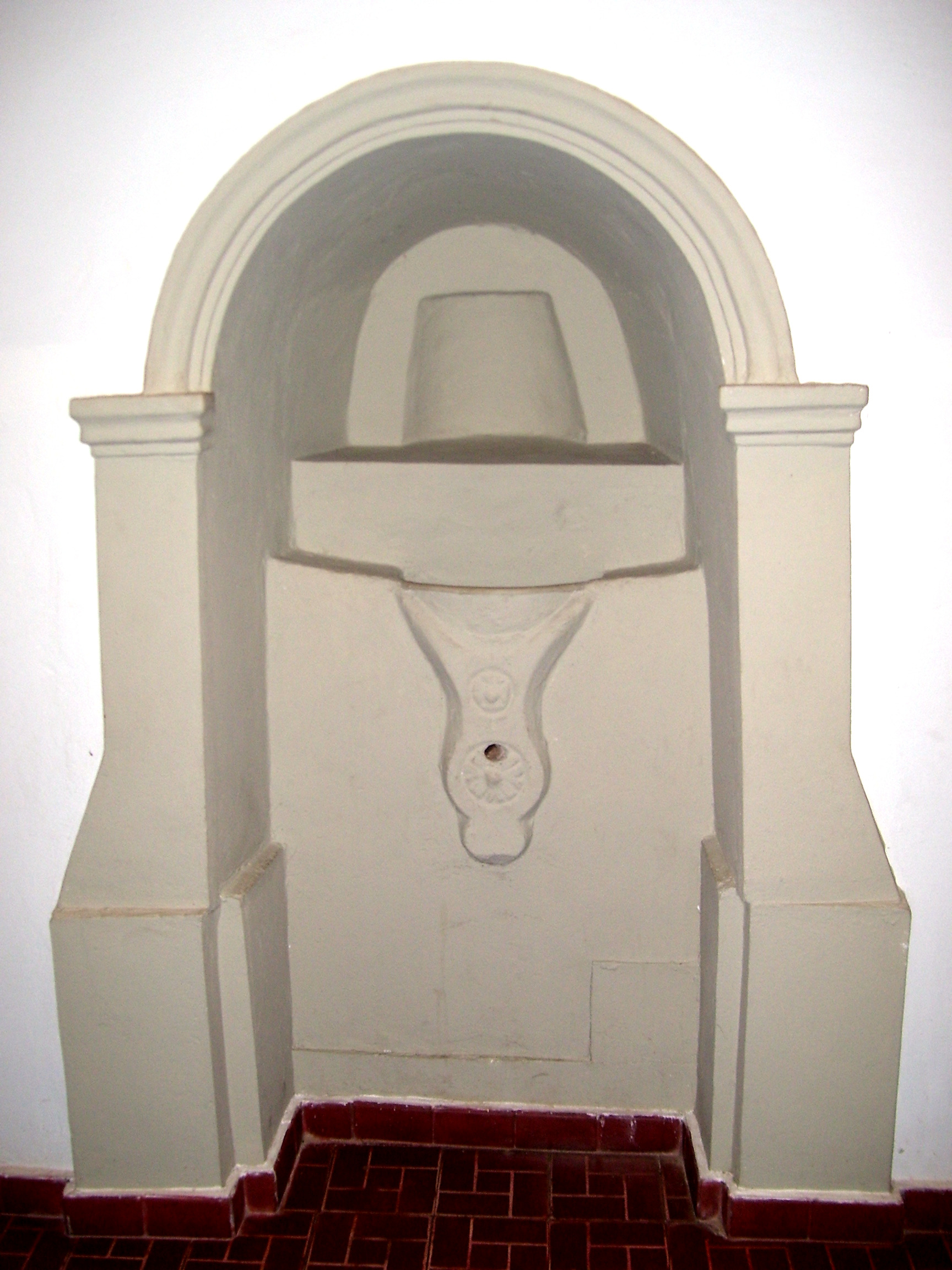 Baptistery of Church of Our Lady of the Rosary and Saint Benedict, Cuiabá, Mato Grosso, Brazil.